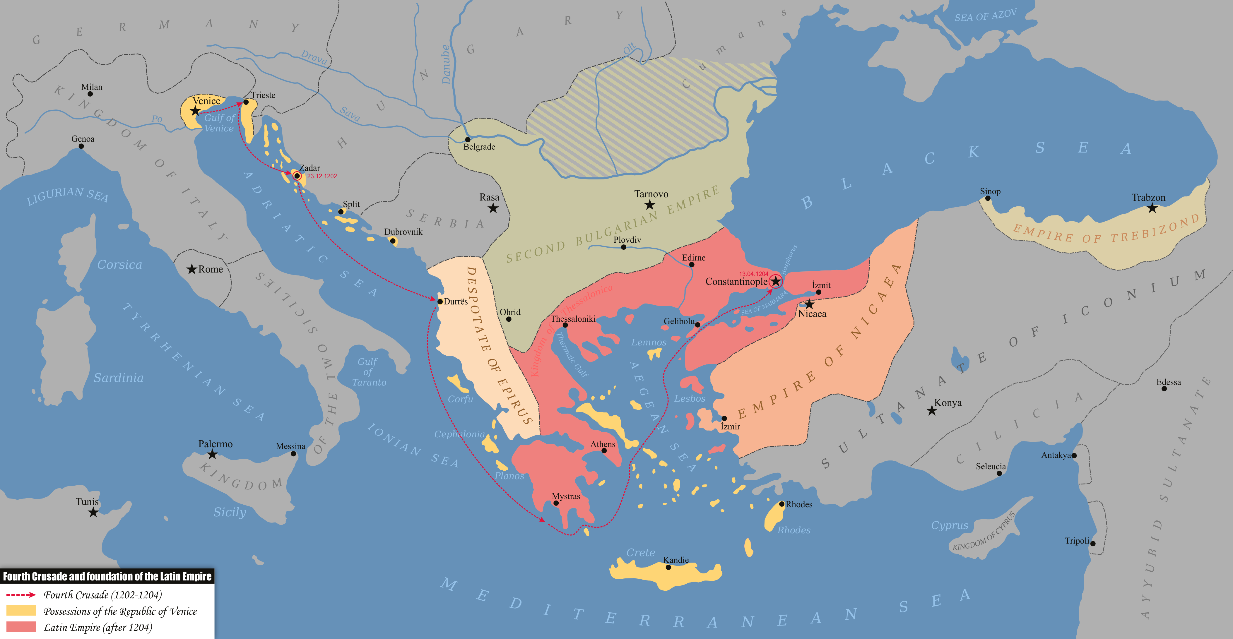 Fourth Crusade and foundation of the Latin Empire (1202-1204) Based on: Карта "Четвърти кръстоносен поход (1202-1204)" в "Атлас по история на Средните векове за шести клас", КИПП по картография, София, 1979 г.